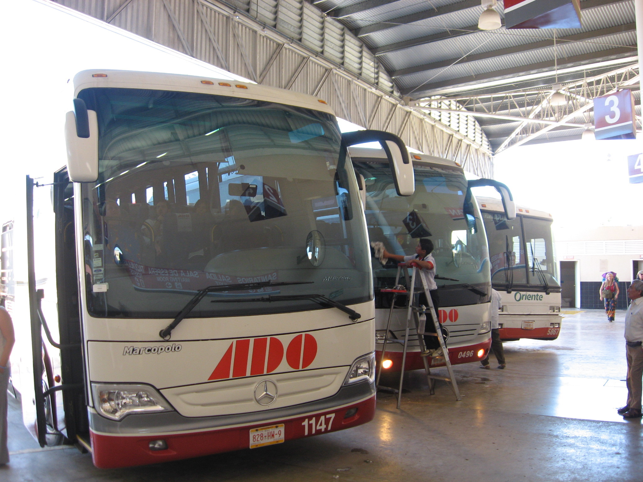 ADO buses getting a windscreen clean at Valladolid, Mexico.